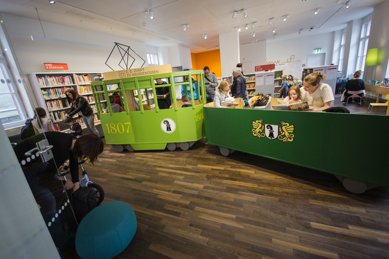 GGG City Library of Basel, Library Schmiedenhof, interior view, childrens section